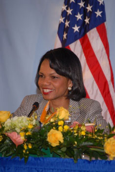 From the US State Dept Website